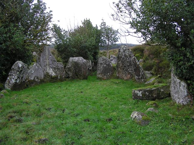 Carnagat Portal Tomb. It is located at Ballywholan